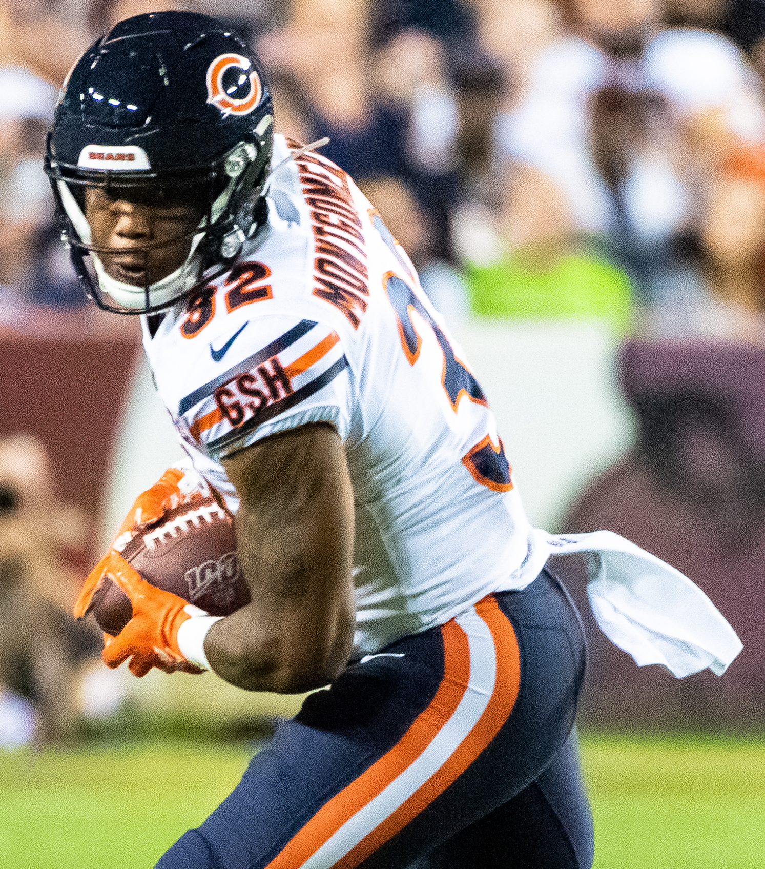 In 2019